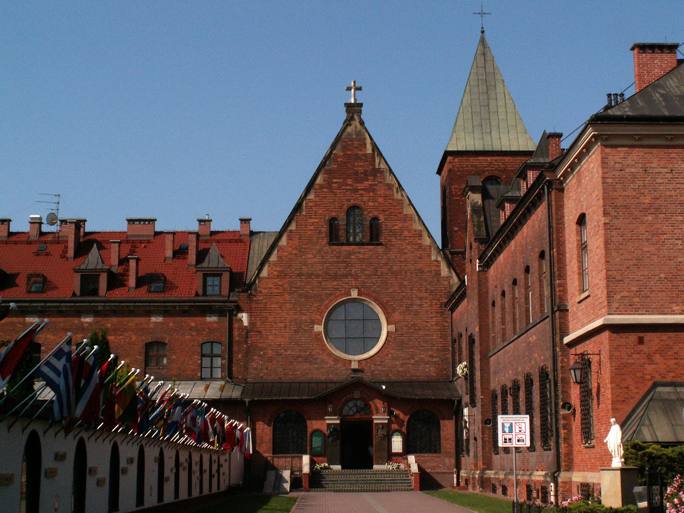 St. Joseph Chapel, 3 Siostry Faustyny street, Lagiewniki, Krakow, Poland